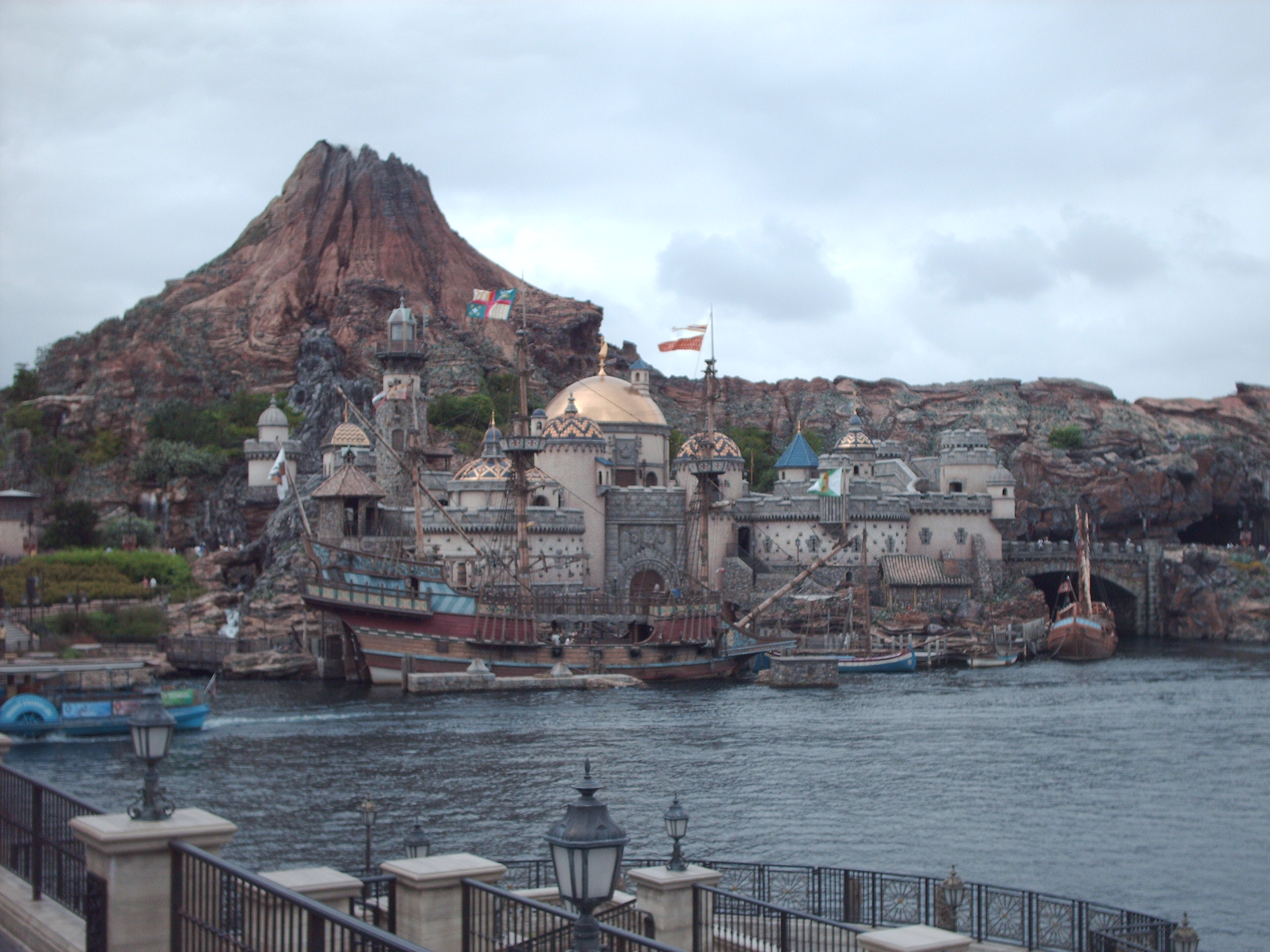 The largest man-made rock structure in the world....Mount Prometheus.... looms over Fortress Expeditions at Tokyo DisneySea, Japan